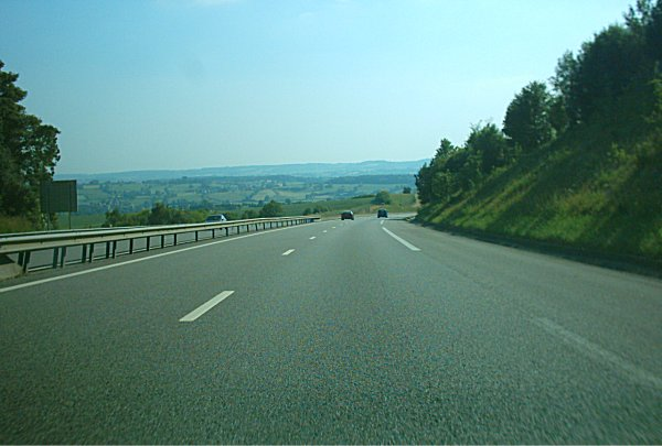 Author: Gregory Deryckère Description: motorway A28 near Neufchâtel-en-Bray, France.